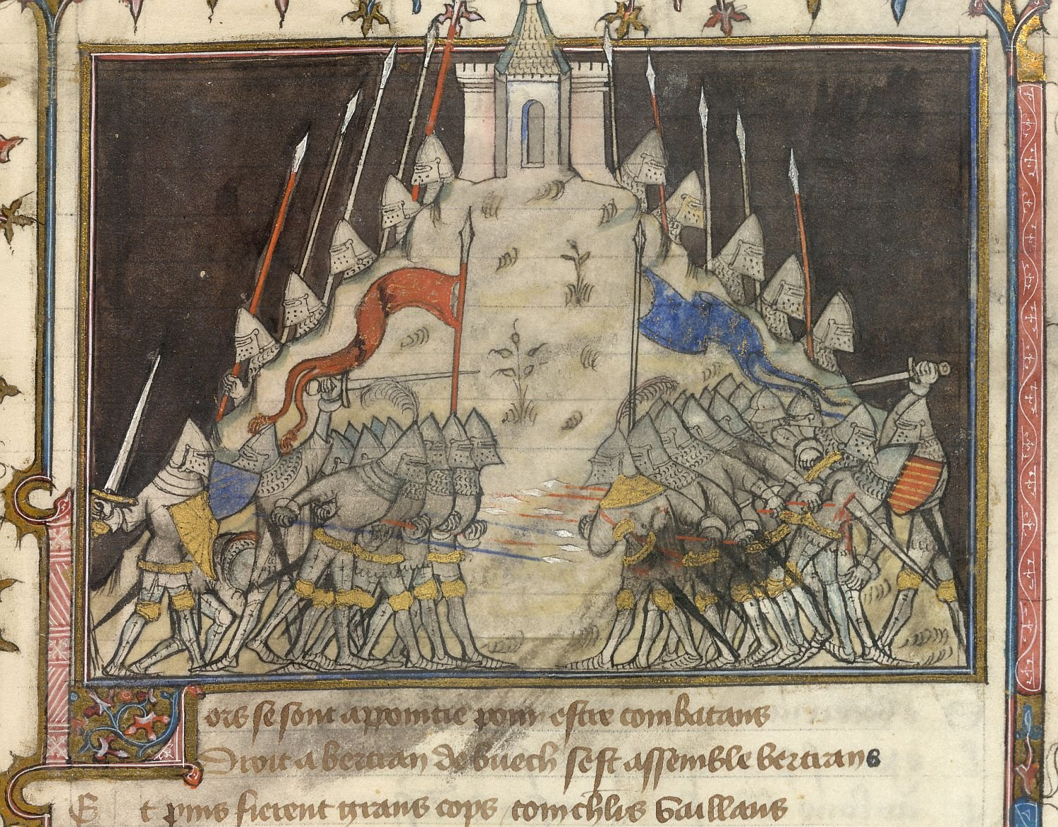 Battle of Cocherel, British Library, Yates Thompson 35 f. 71.